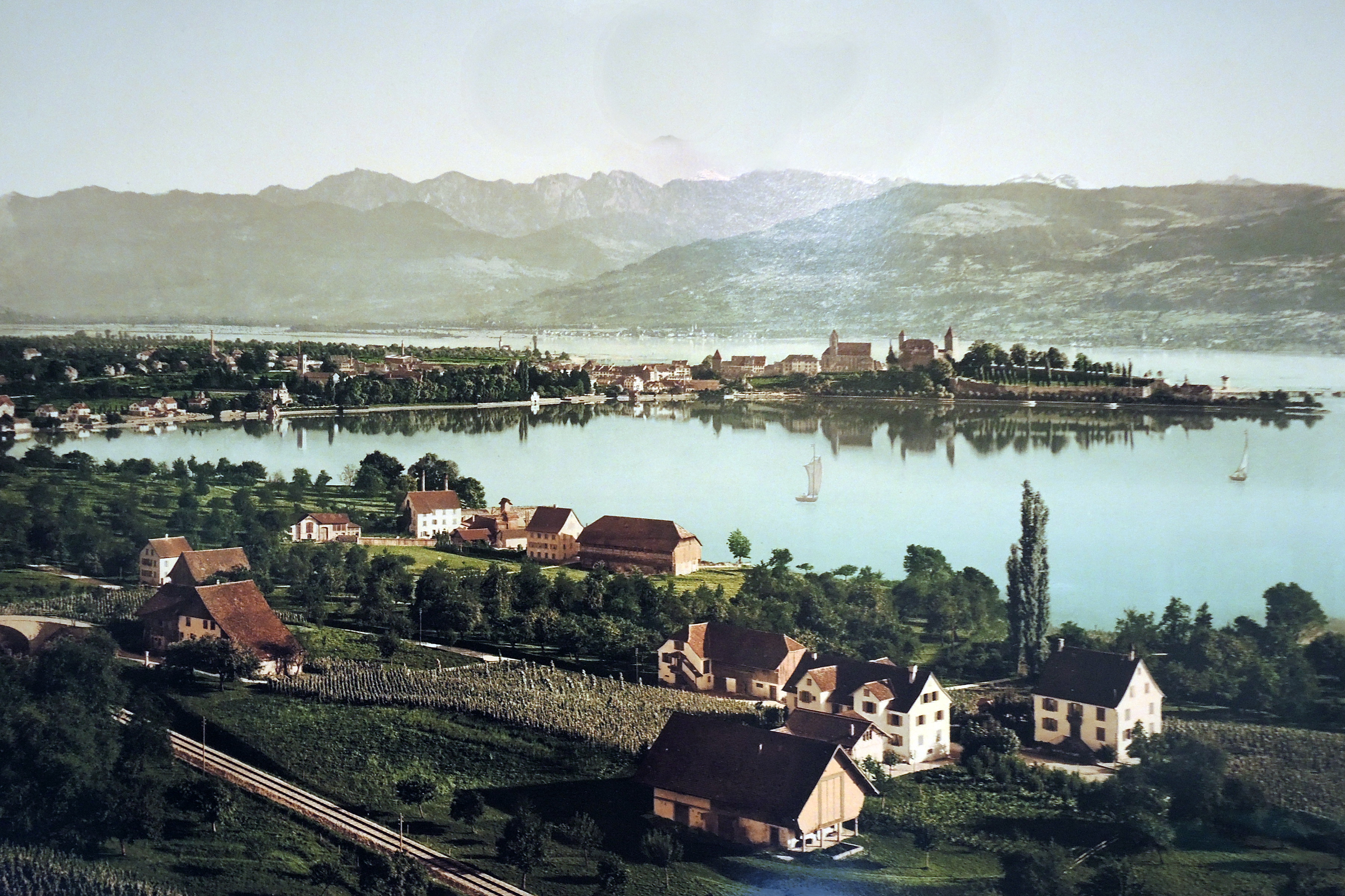 Collection of the Stadtmuseum in Rapperswil (Switzerland)